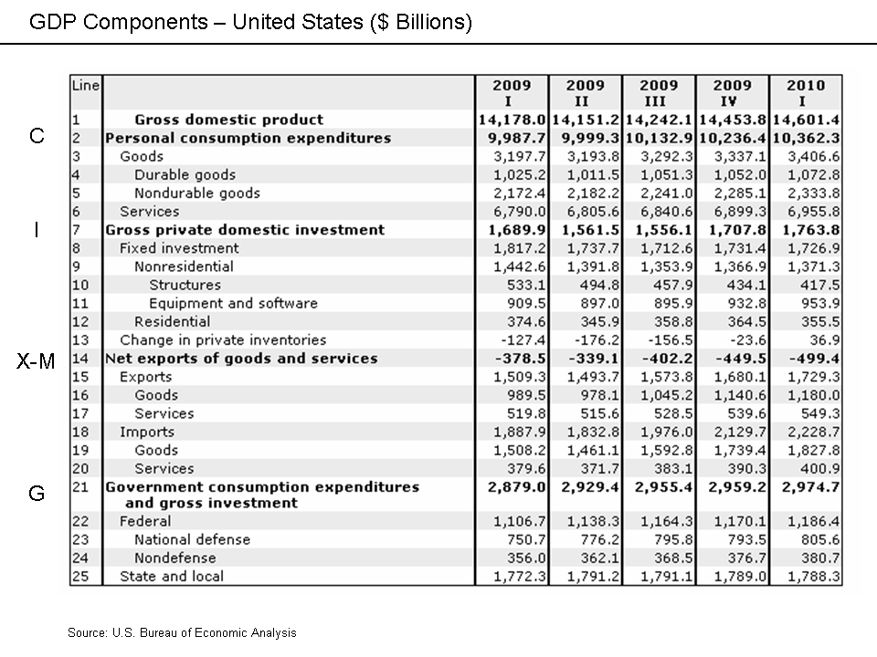 GDP Categories - United States Explanation This graphic is extracted from BEA reporting available here: BEA - National Income and Product Accounts Table 1.1.5 Gross Domestic Product These are seasonally adjusted, annualized results. This means taking a snapshot of the quarterly activity and projecting it for the full year. The C, I, X-M, and G were added by the Wikipedia editor. Various time periods can be selected from the source report. A negative X-M means there is a trade deficit, where imports exceed exports. More detail on how the U.S. defines its GDP components (national product accounts) can be found here: BEA-GDP Concept Primers